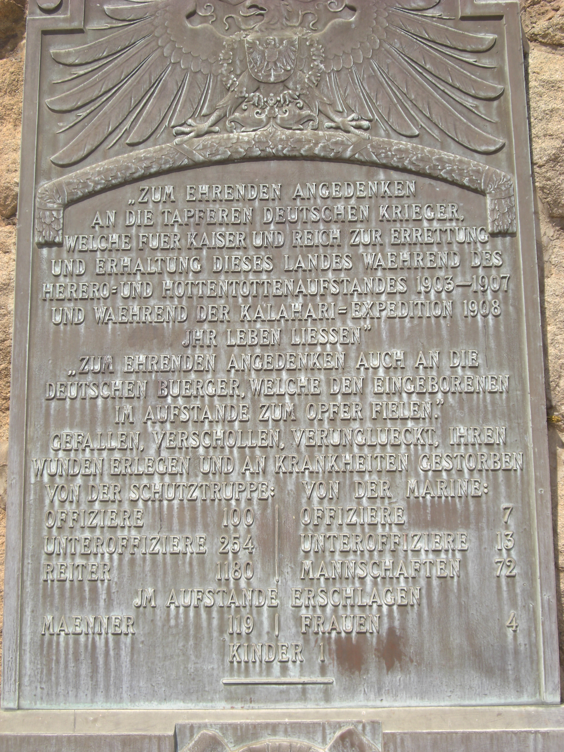 German Memorial in Windhoek, Inscription